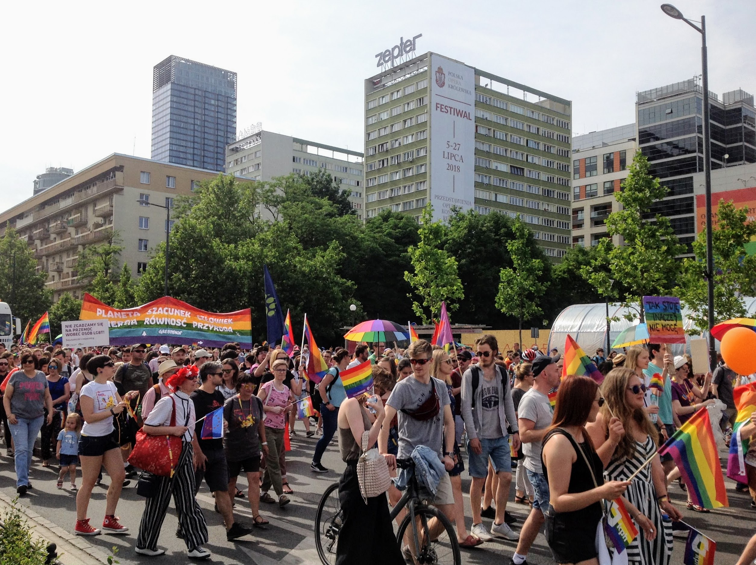 Parada Równości 2018